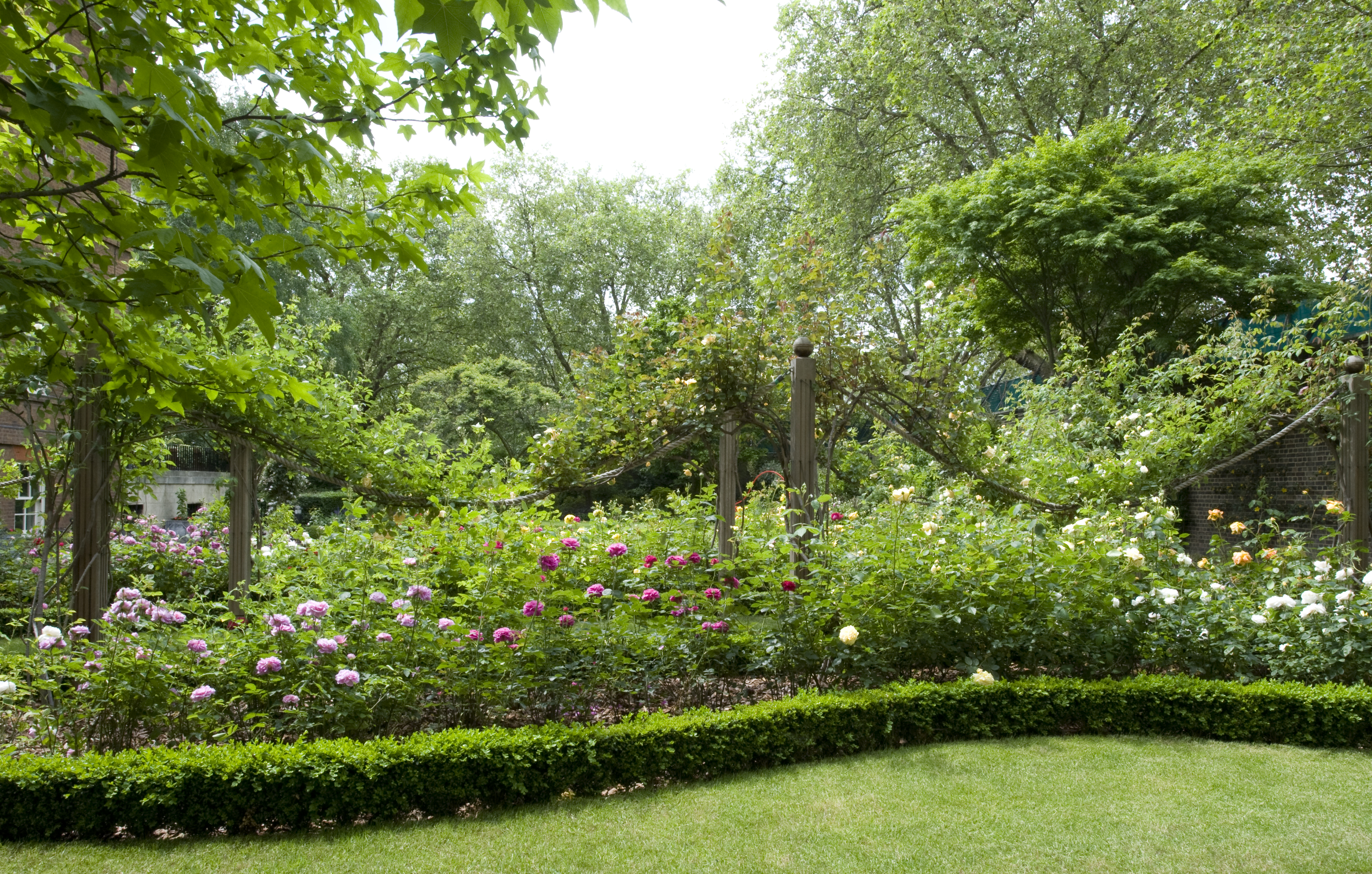 On Saturday 9 June 2012 the garden at 10 Downing Street was opened to 25 members of the public as part of Open Garden Squares Weekend. Take a virtual tour of the 10 Downing Street garden.